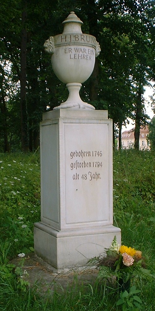 Memorial of teacher Heinrich Julius Bruns in Reckahn in Brandenburg, Germany